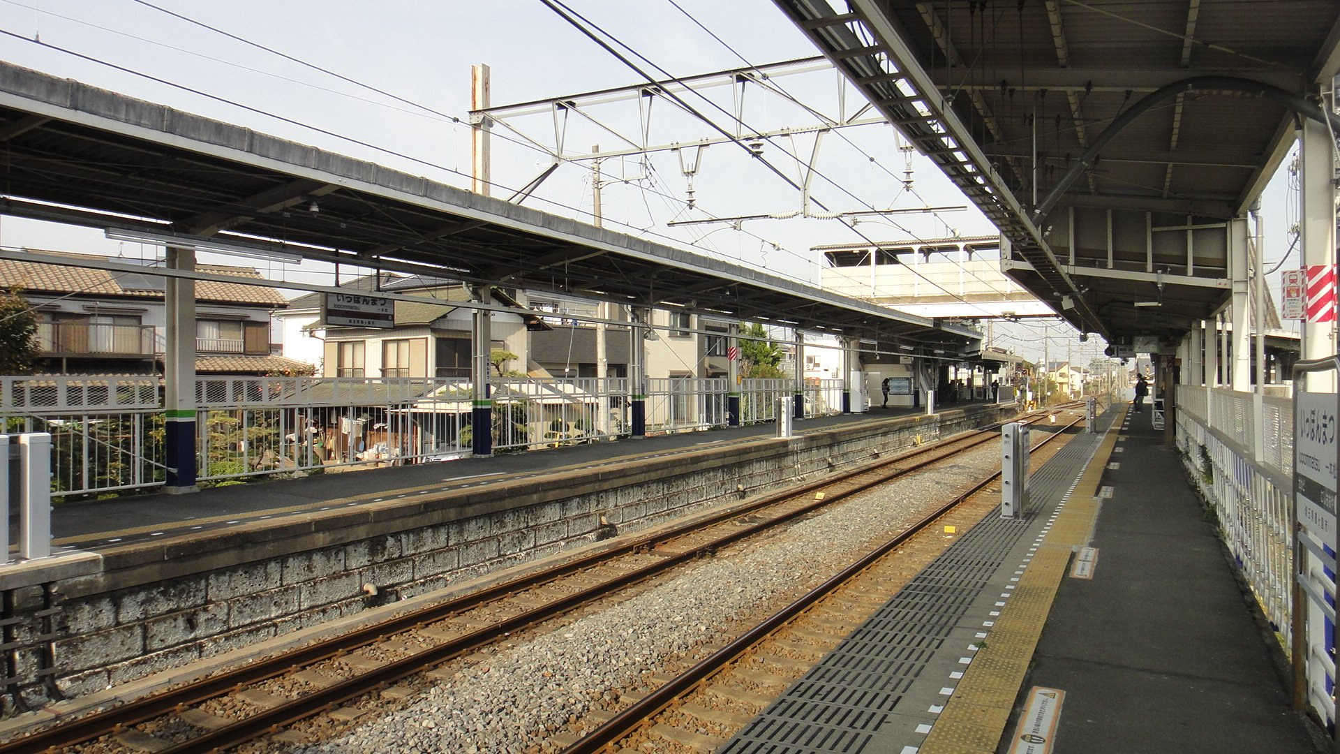 View of the platforms at Ippommatsu Station on the Tobu Ogose Line, looking toward Sakado from the down (Ogose-bound) platform